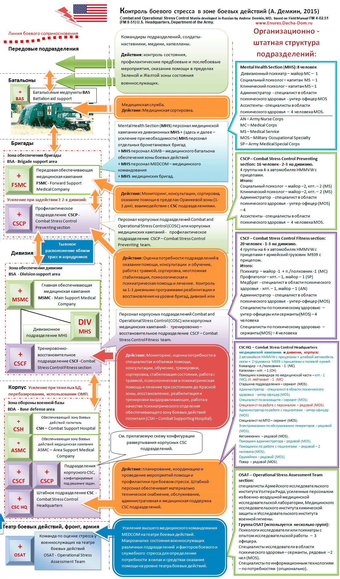 Combat and Operational Stress Control Matrix based on Field Manual FM 4-02.51 (FM 8-51) U.S. Headquarters, Department of the Army.